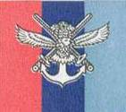 Self Created artwork resembling artwork apublished by the Government of India.